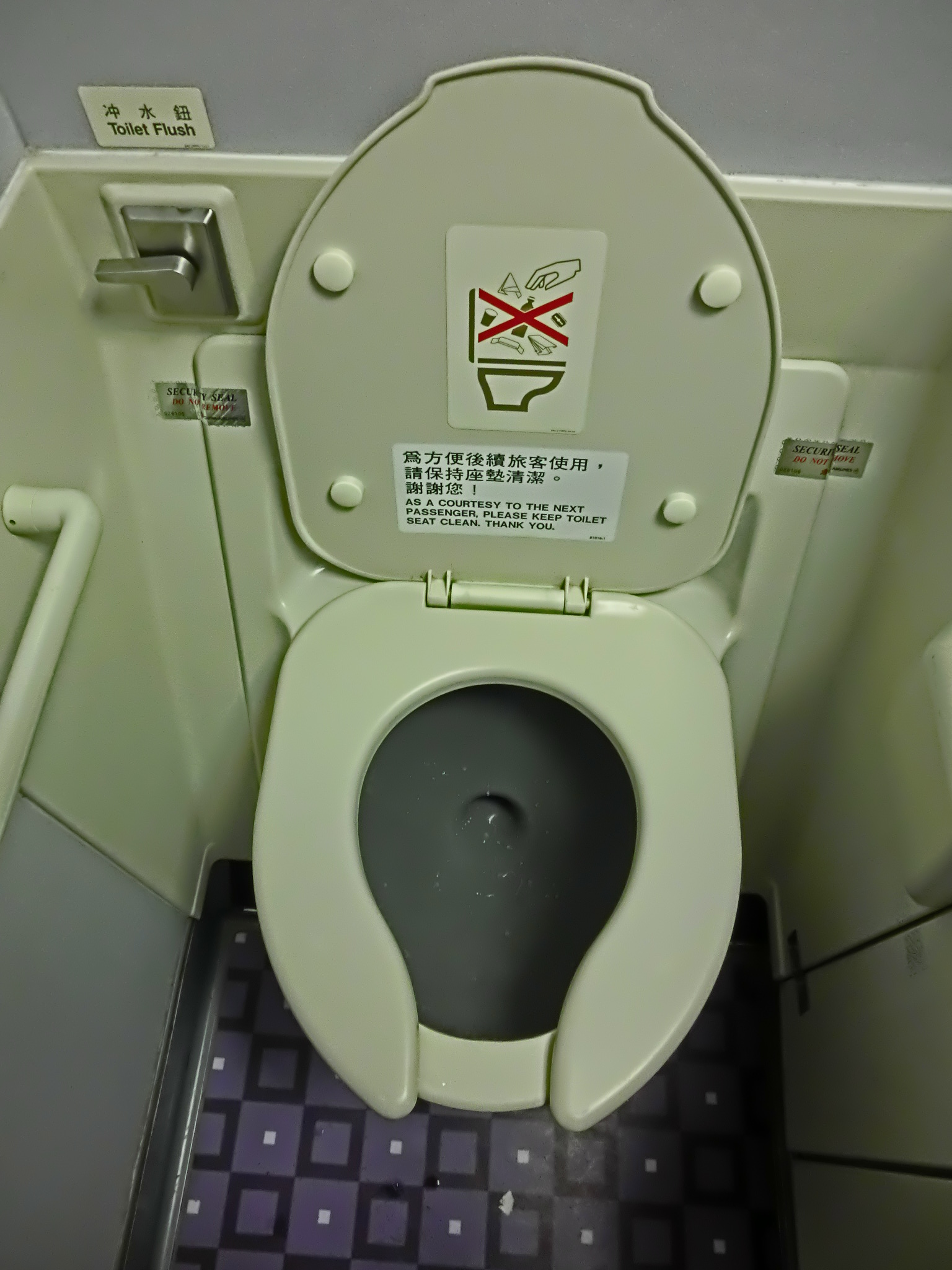 中華航空, aircraft of China Airlines